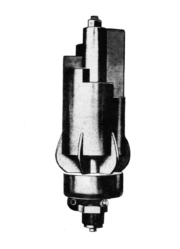 From a 1907 trade catalog